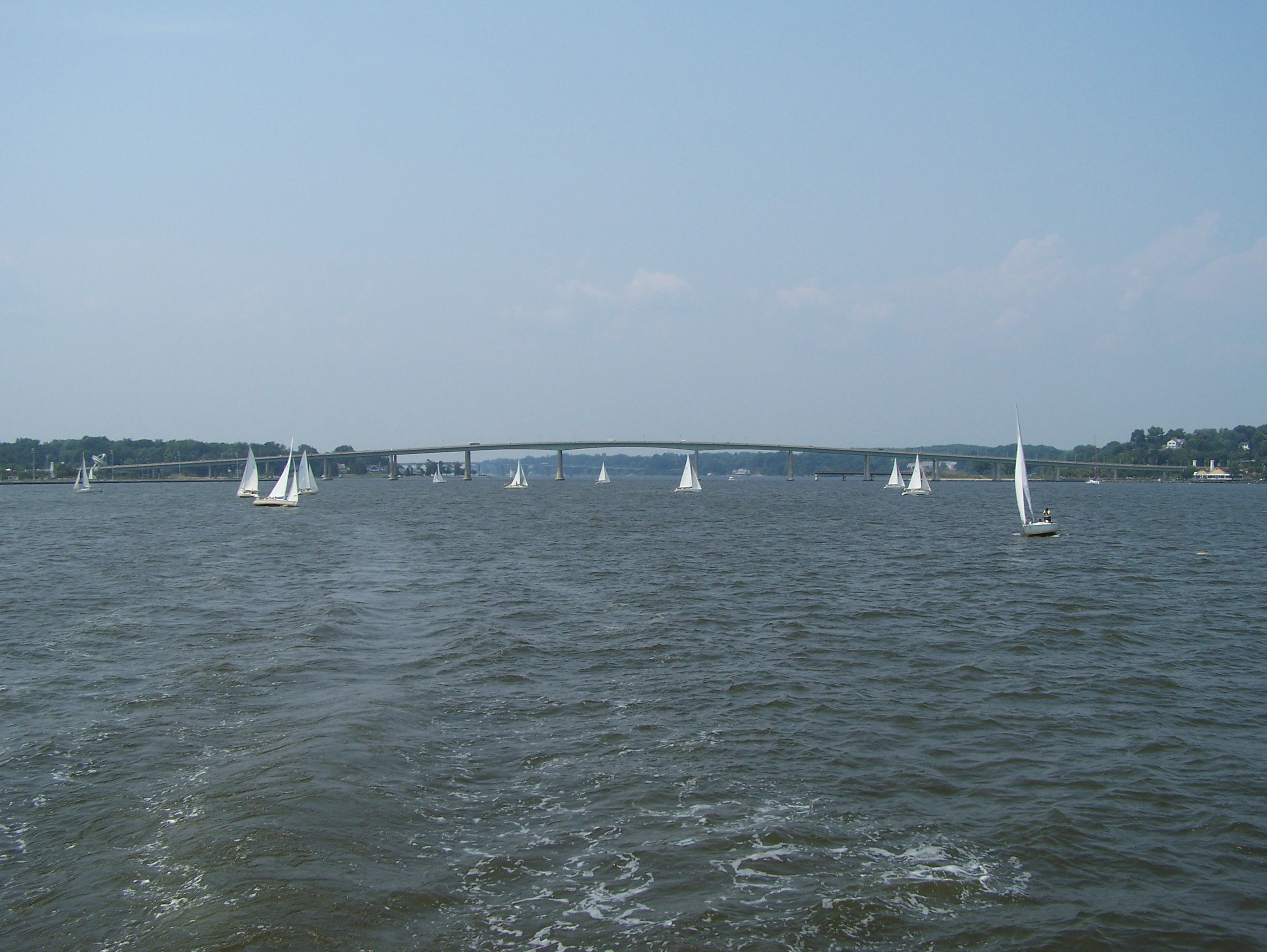 Photo of the U.S. Naval Academy Bridge crossing the Severn River in Annapolis, Maryland. This photo was taken by me, David Podgor on August 3, 2007.